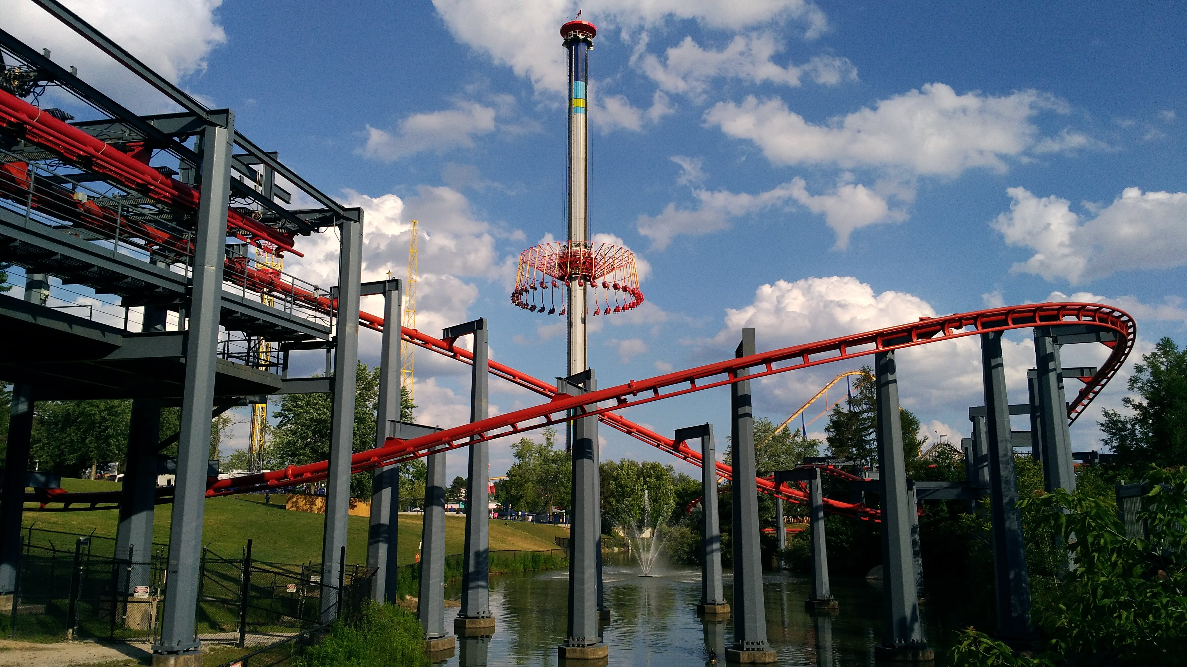 A shot of where Vortex goes over the artificial river, giving riders the impression that they're flying over water, with Windseeker clearly visible in the background. Behemoth's first hill and the towers of Slingshot can also be seen.